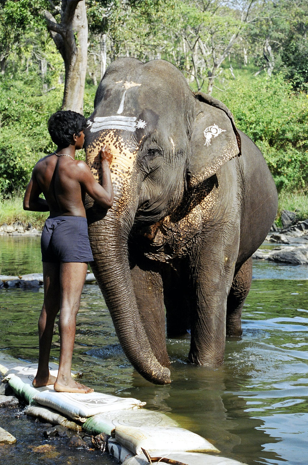 A keeper adorns his elephant after a bath, in a summer camp for temple elephants, Tamilnadu, India